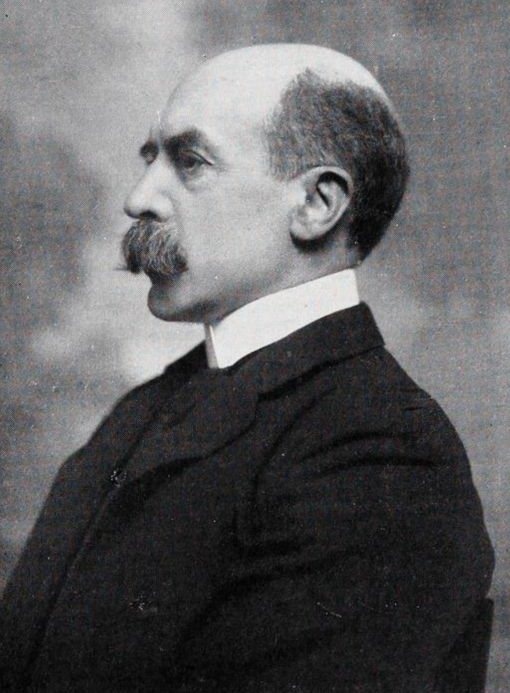 Edward William Mountford, British architect 1855-1908